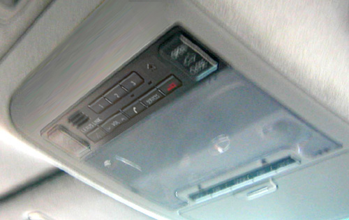 Center cabin, upper